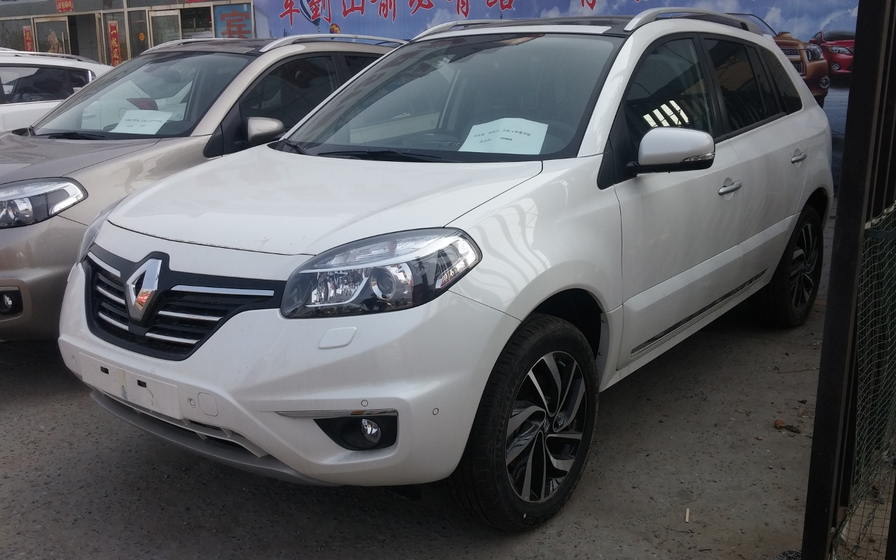 Renault Koleos facelift II photographed in Beijing, China.